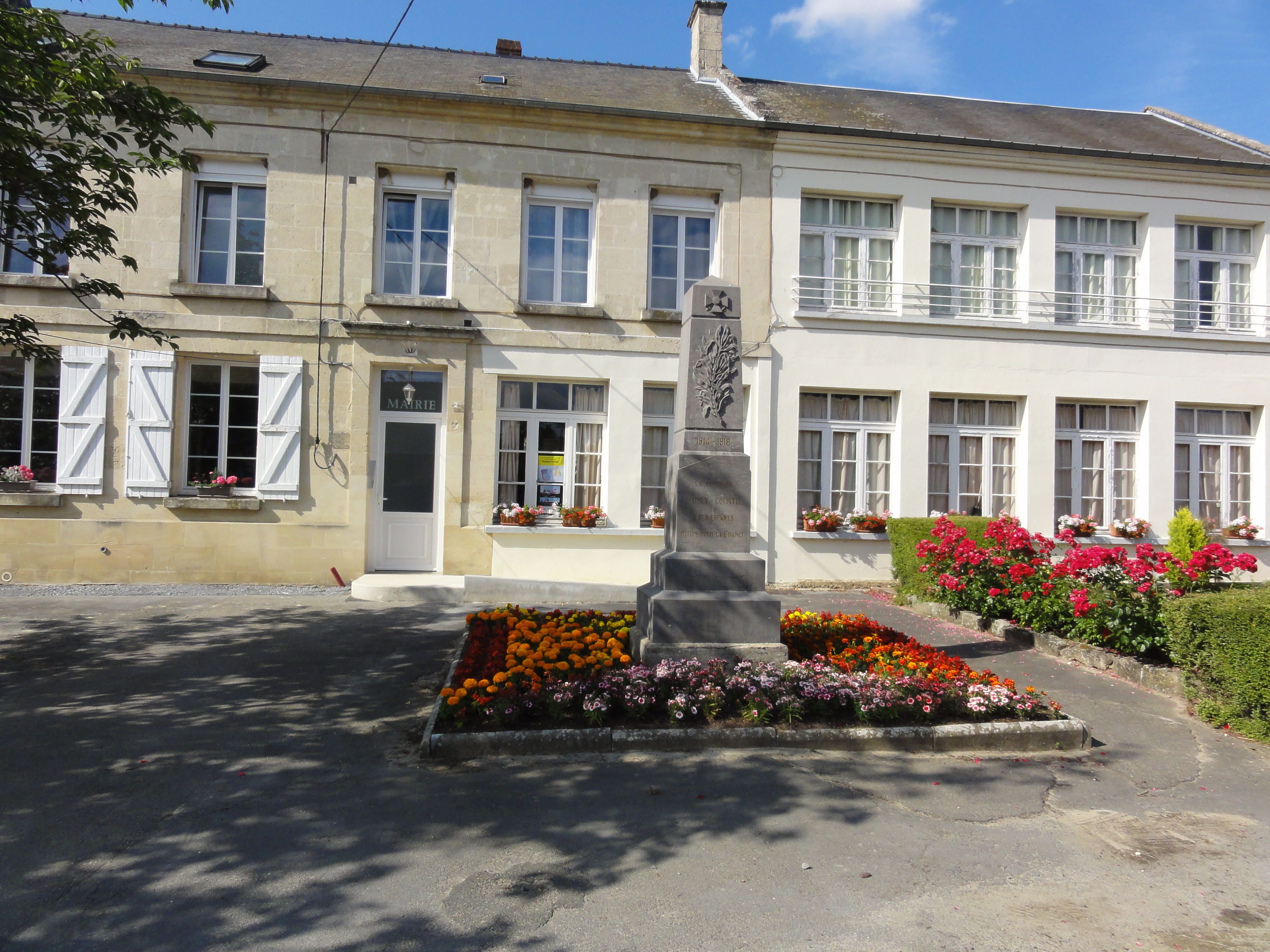 Osly-Courtil (Aisne) mairie